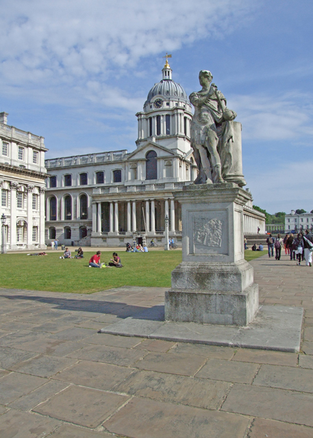 University of Greenwich Queen Mary court.